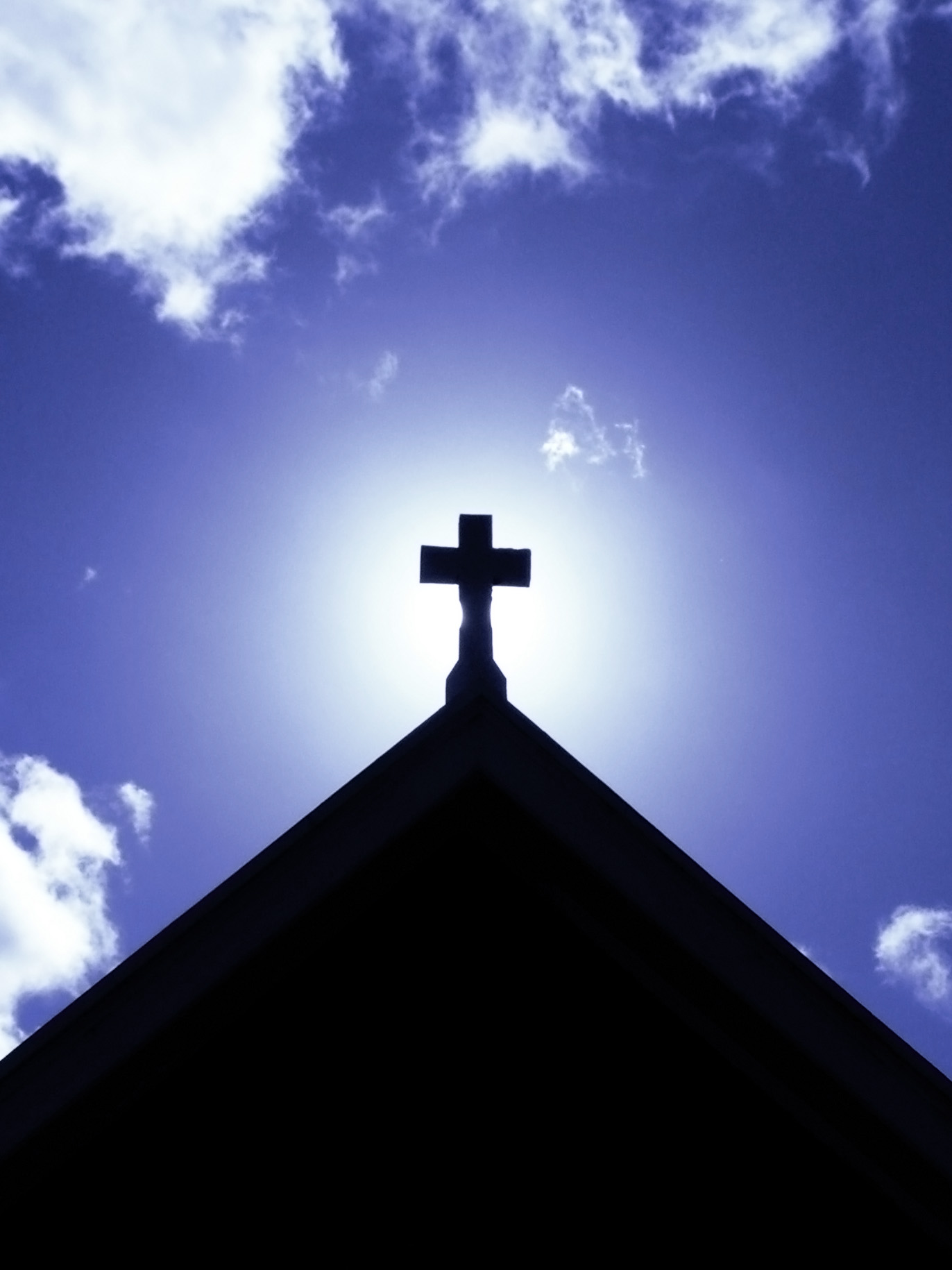 An example of a contre-jour photograph of a church steeple.